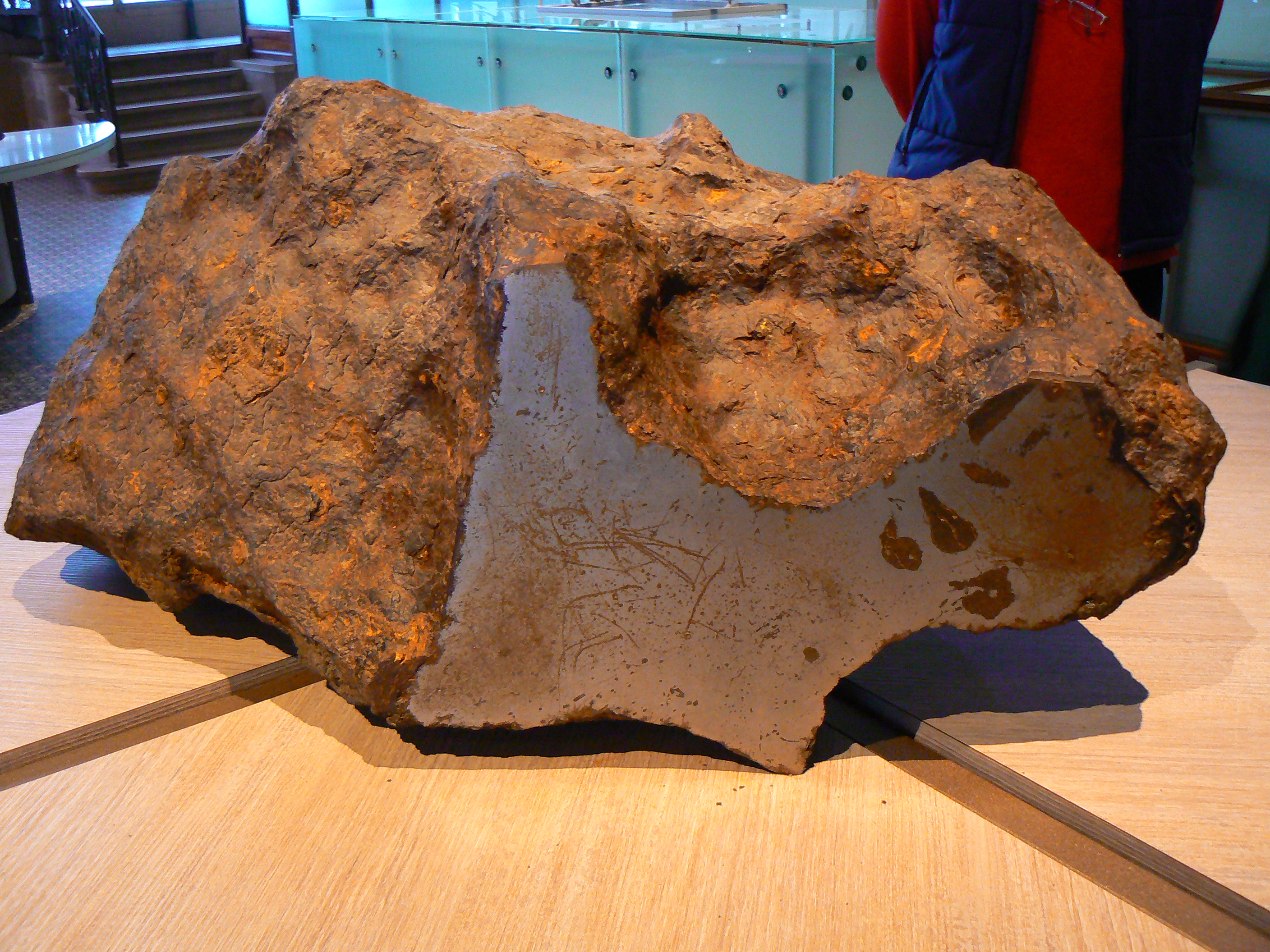 Mont Dieu meteorite, iron ungrouped, Musée des Sciences de Bruxelles